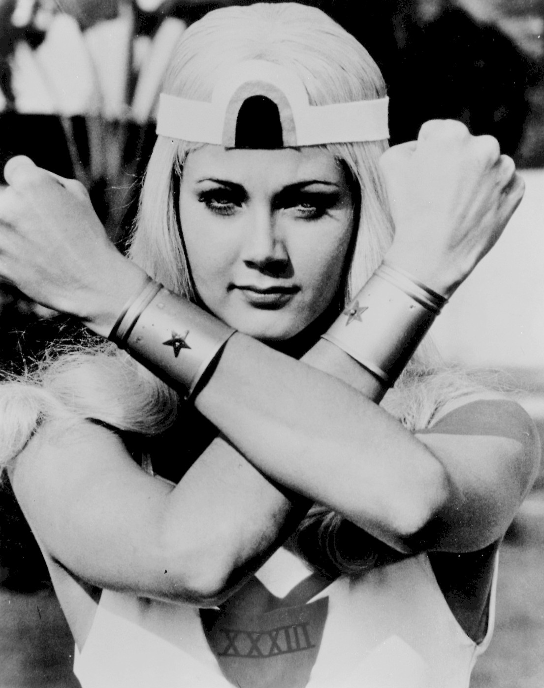 Photo of Lynda Carter as Wonder Woman.